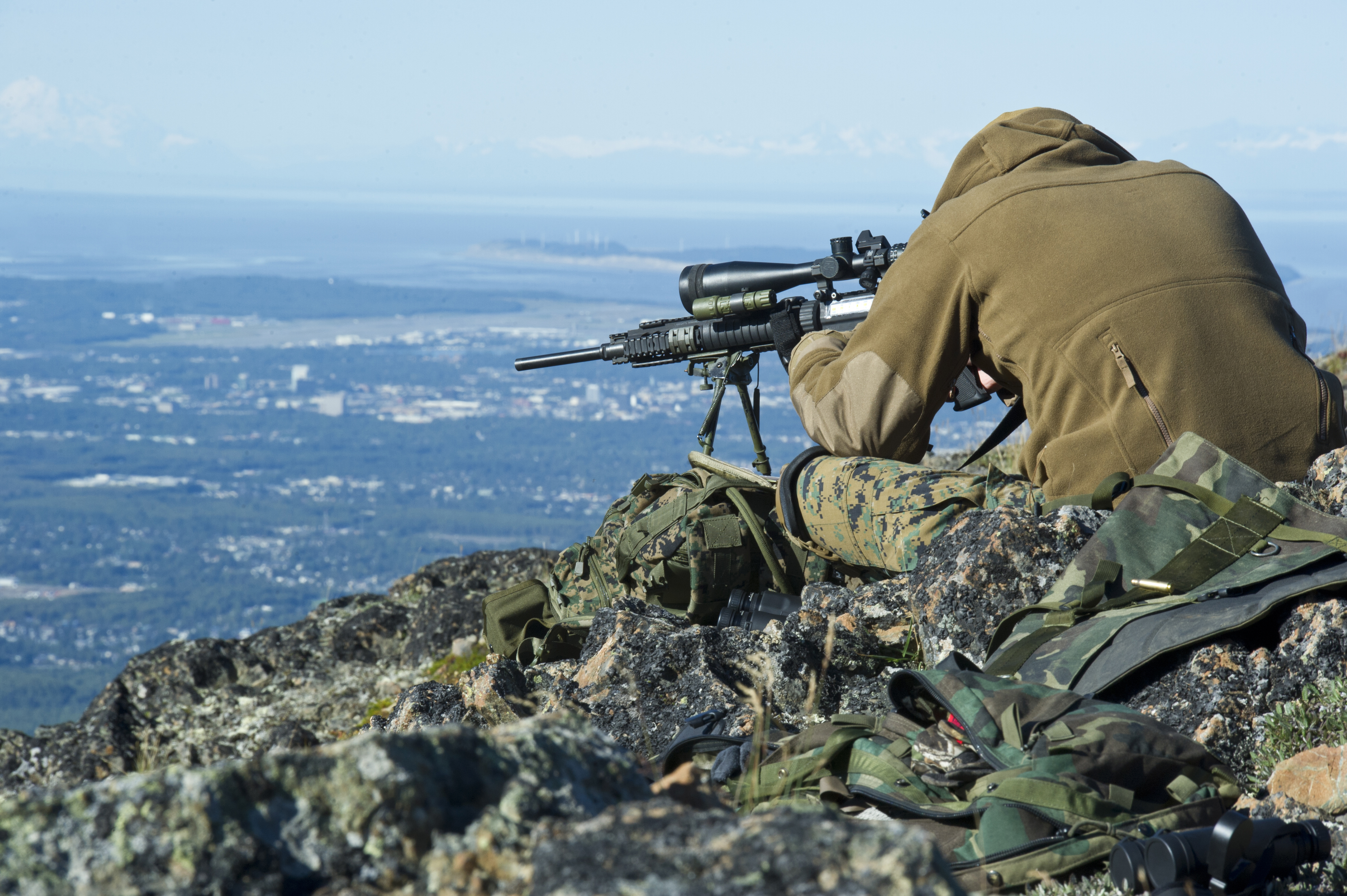 Anchorage Police Department Special Weapons and Tactics (SWAT) Team officers train on the High-Angle Sniper Range at Joint Base Elmendorf-Richardson, Tuesday, Aug. 28, 2012. The specialized training prepares officers for multiple scenarios where marksmanship and reconnaissance may be necessary. (U.S. Air Force photo by Justin Connaher)